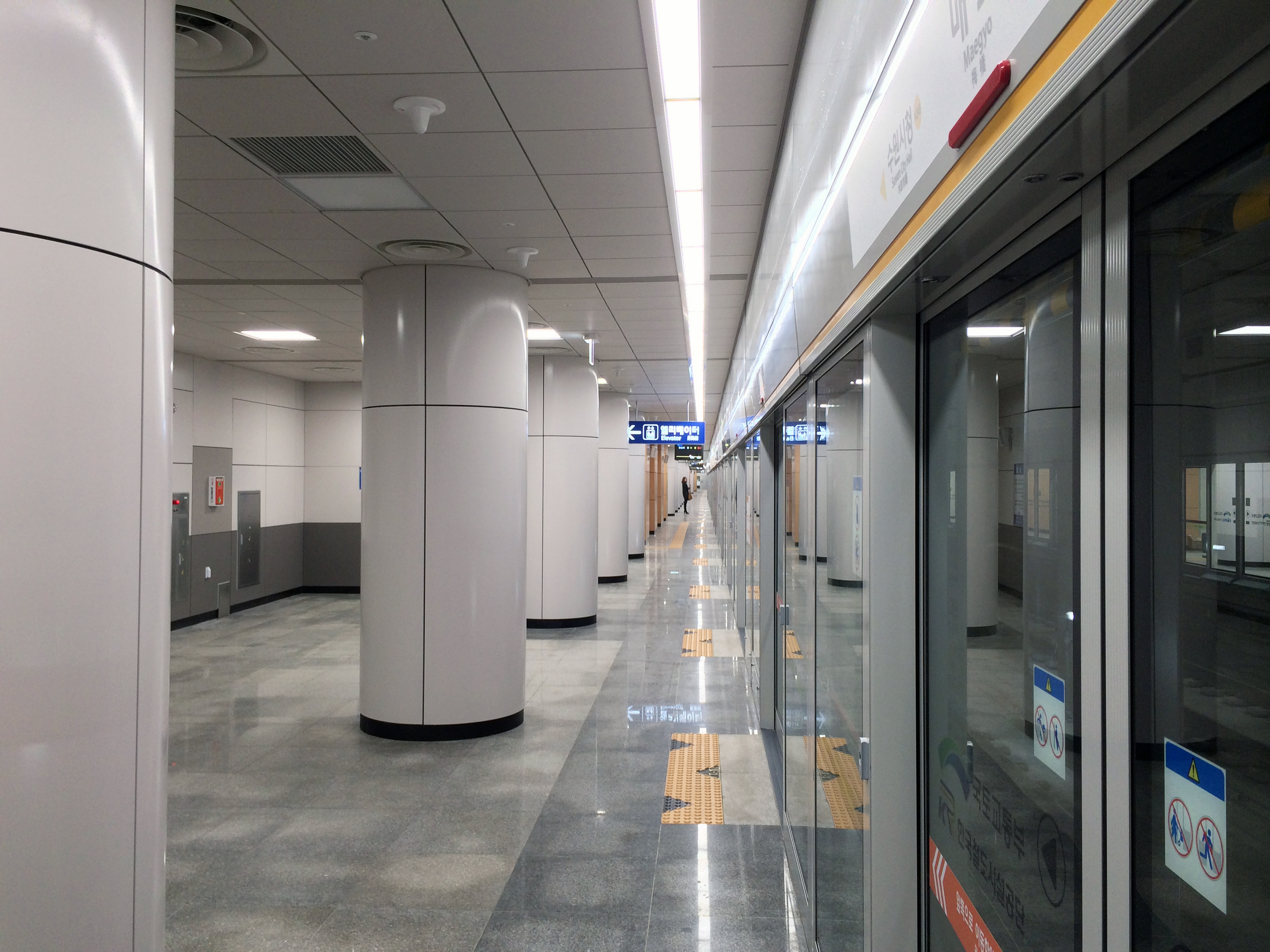 Platform of Maegyo Station